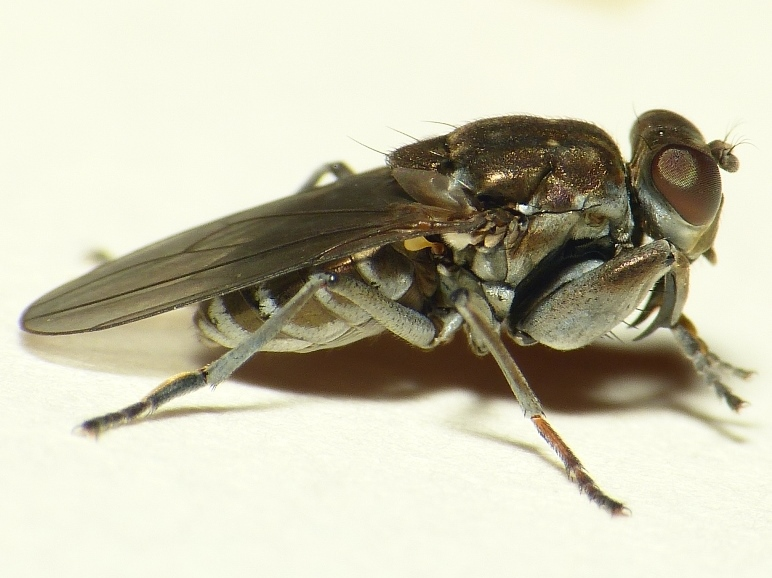 Ochthera mantis, location: The Netherlands - Rhenen - Blauwe Kamer - Gelderland